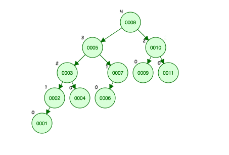 Tree With A 2,2 Node Created by a Delete